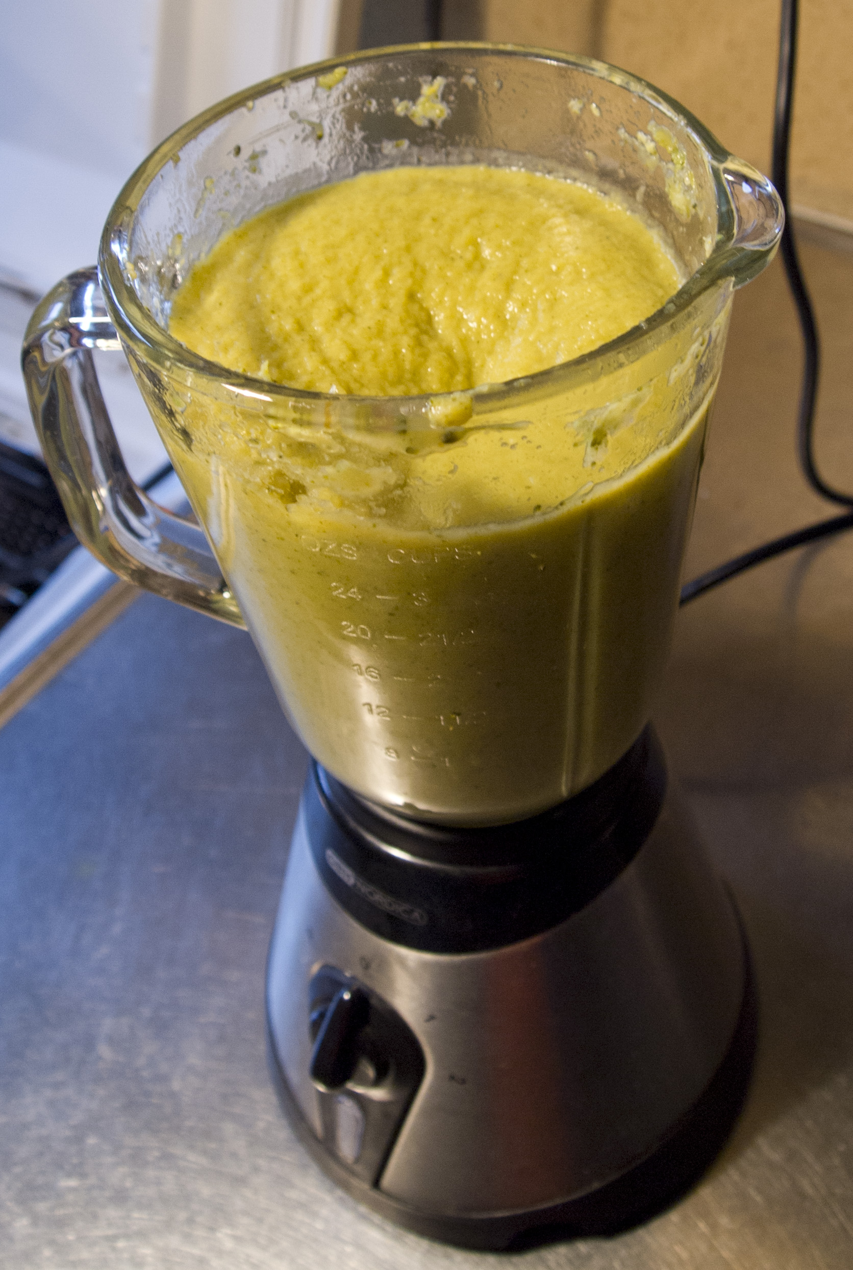 Mashed vegetables including carrot, broccoli, rutabaga, onion and peas.